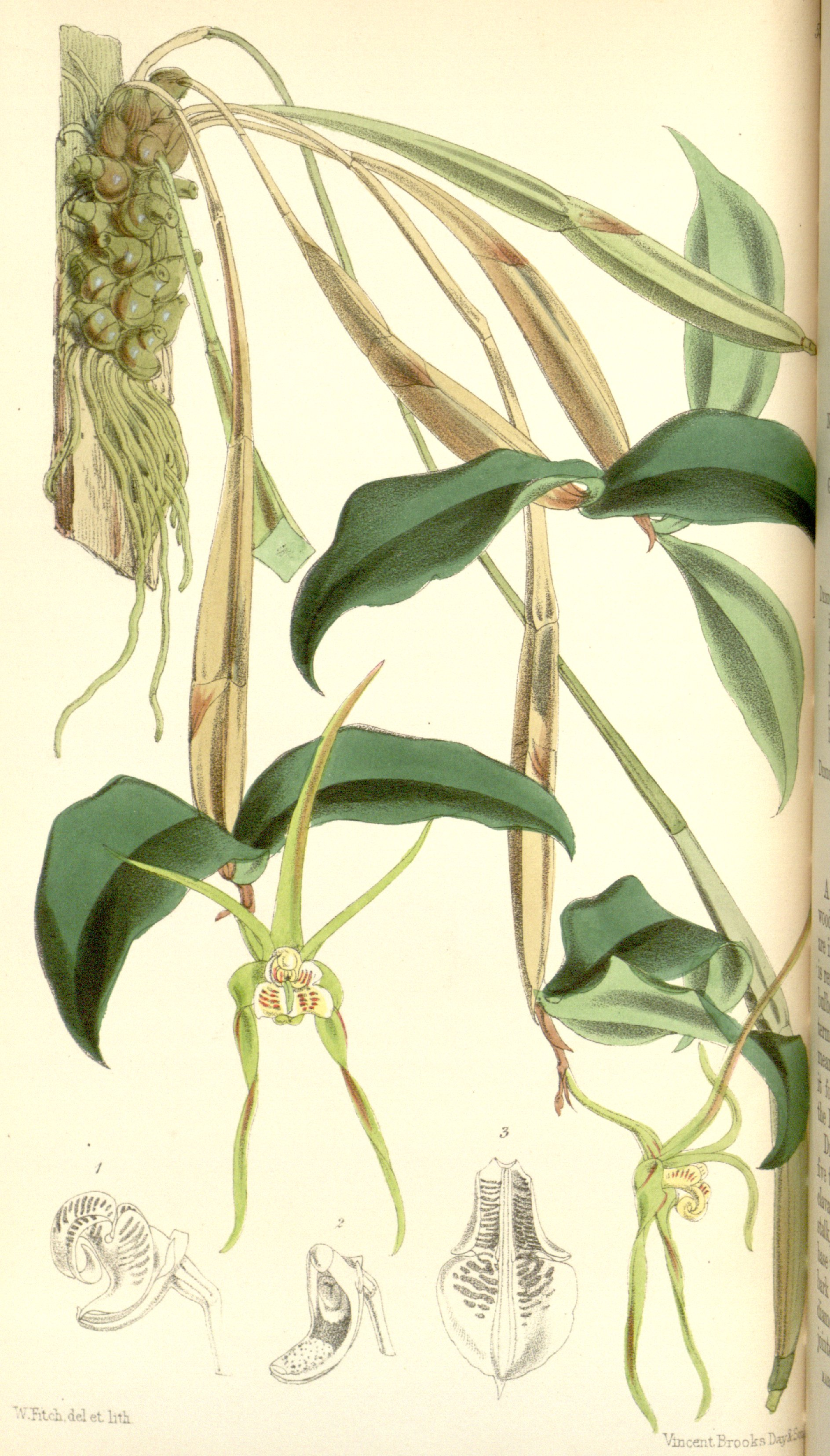 Illustration of Dendrobium tetragonum